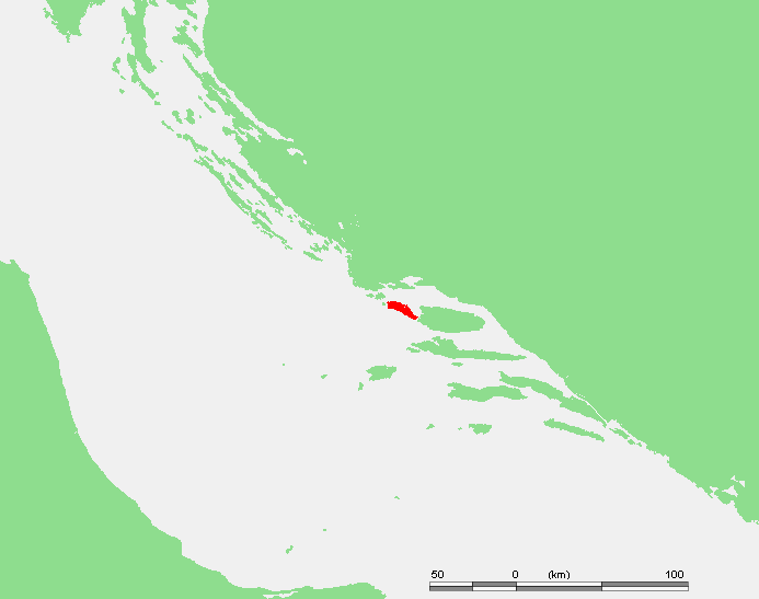 Island of Croatia - Croatia - Solta.PNG